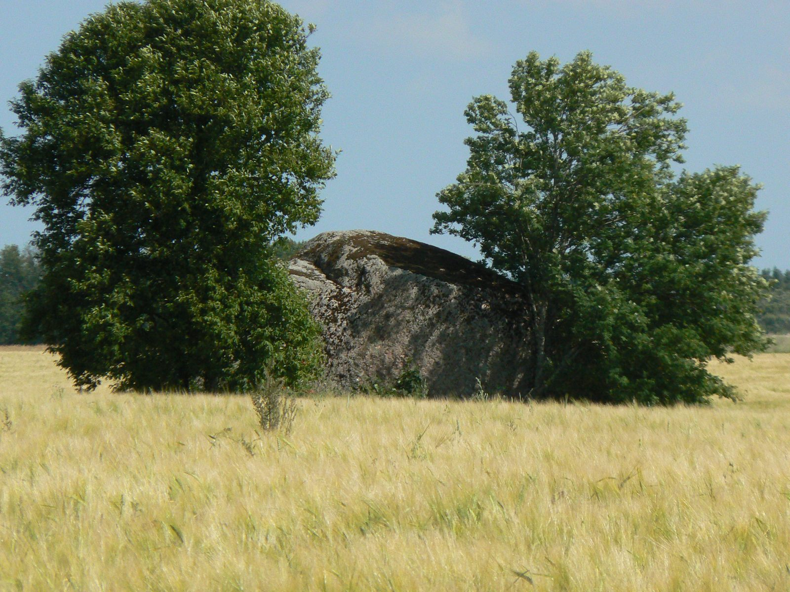 Kupukivi glacial erratic in Estonia